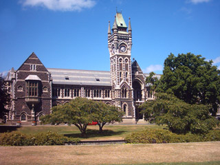 320x240 picture of the University of Otago clocktower. Taken 21 Jan 2004 (which is during the break).